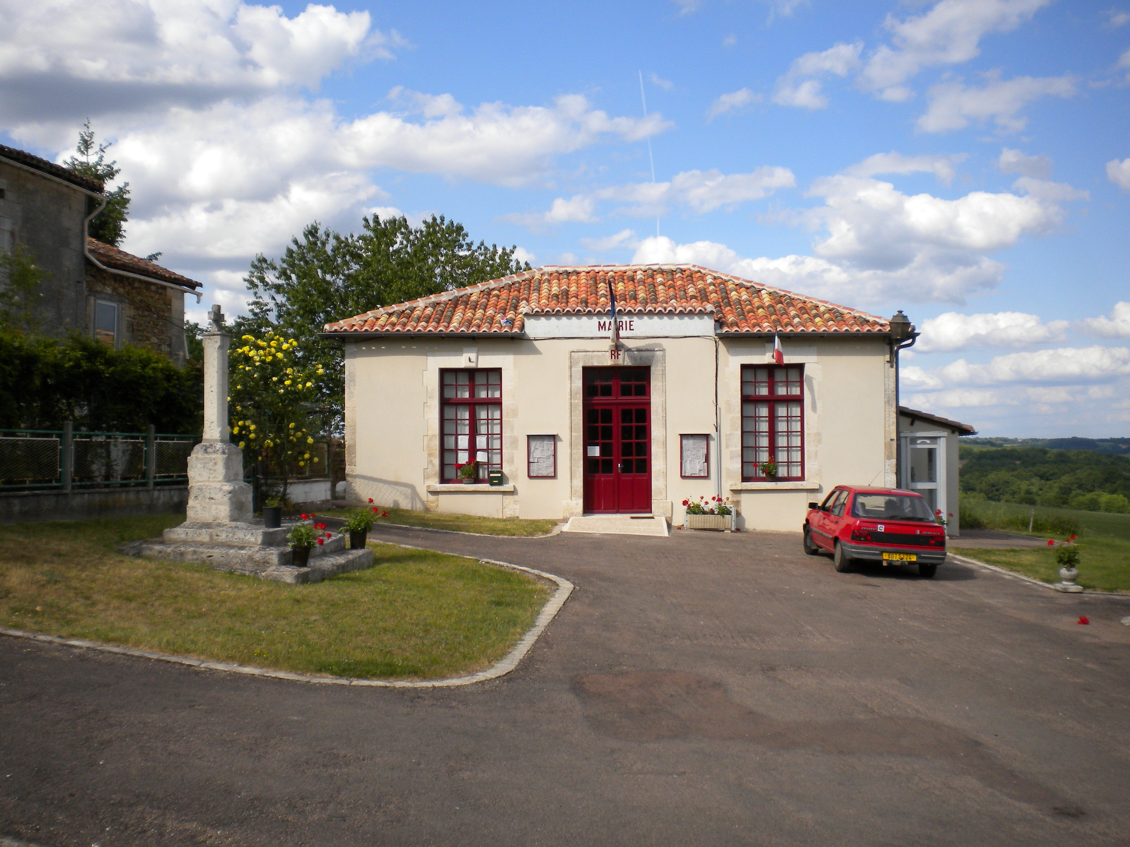 The village town hall (mairie) of Puyrenier, Dordogne, France.